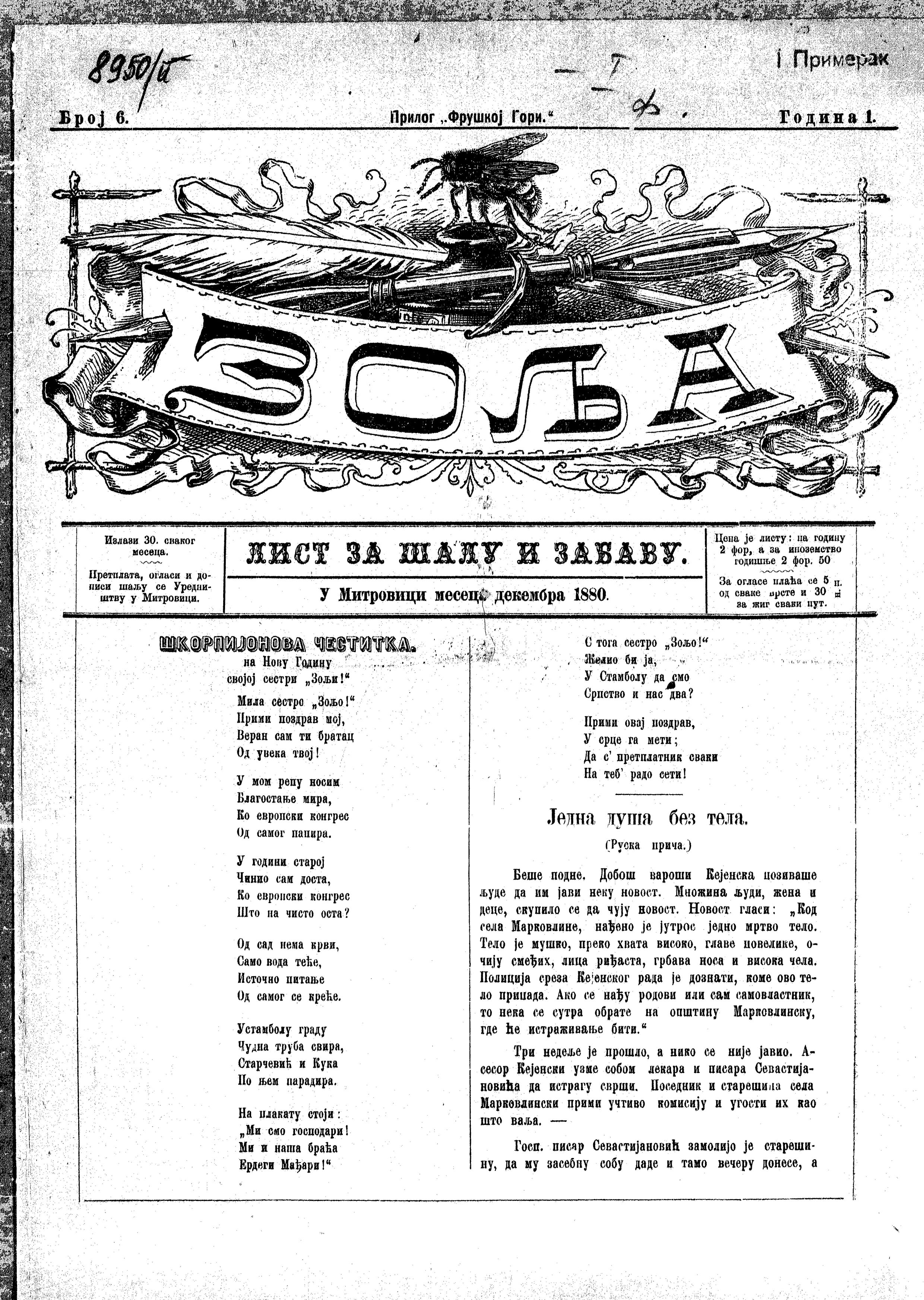 Cover of Serbian magazine Zolja, number 6, 1880. Srpski (latinica): Naslovna strana srpskog šaljivog lista Zolja, broj 6, 1880.